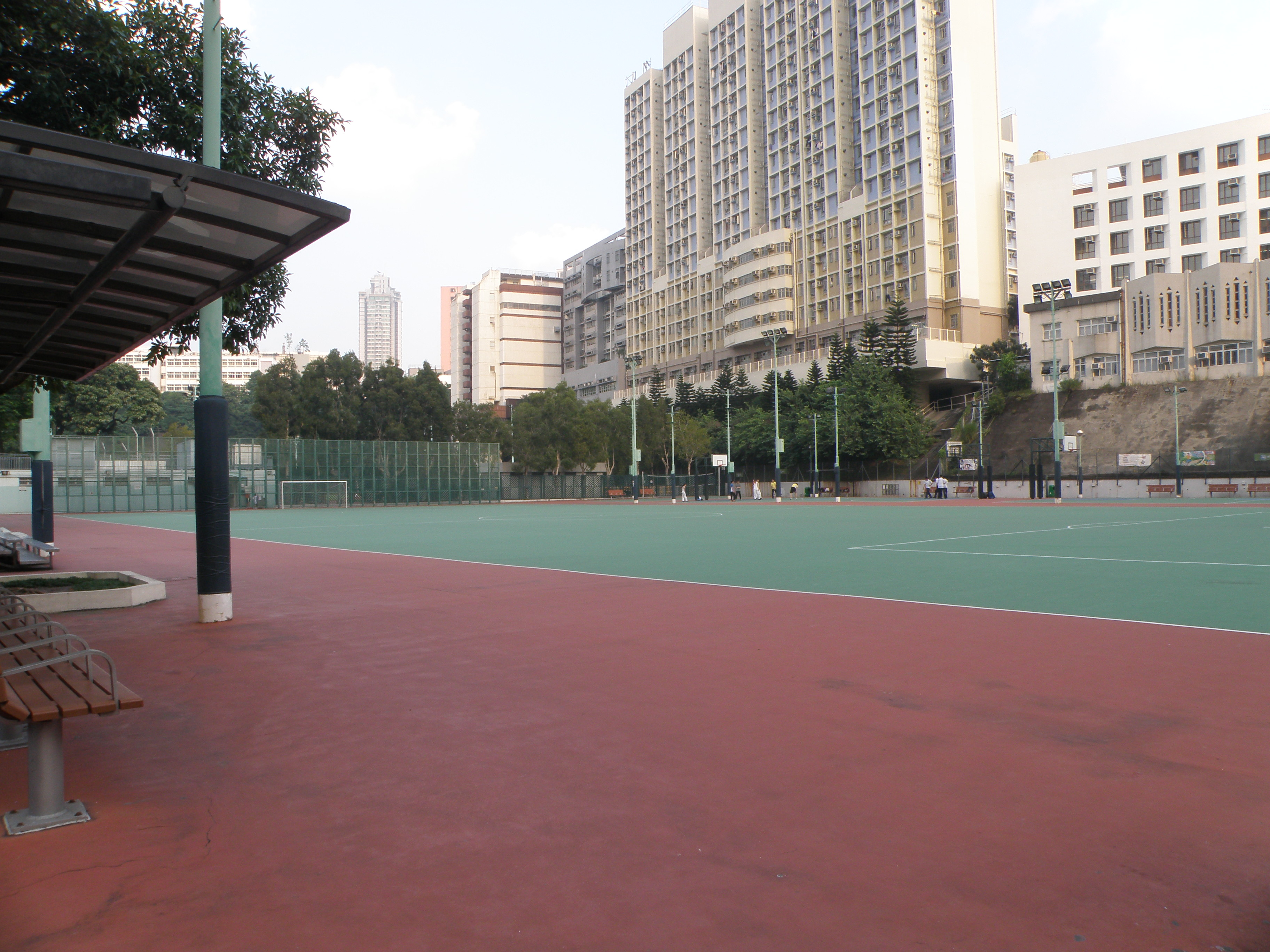 Perth Street Sports Ground in Ho Man Tin, Hong Kong.